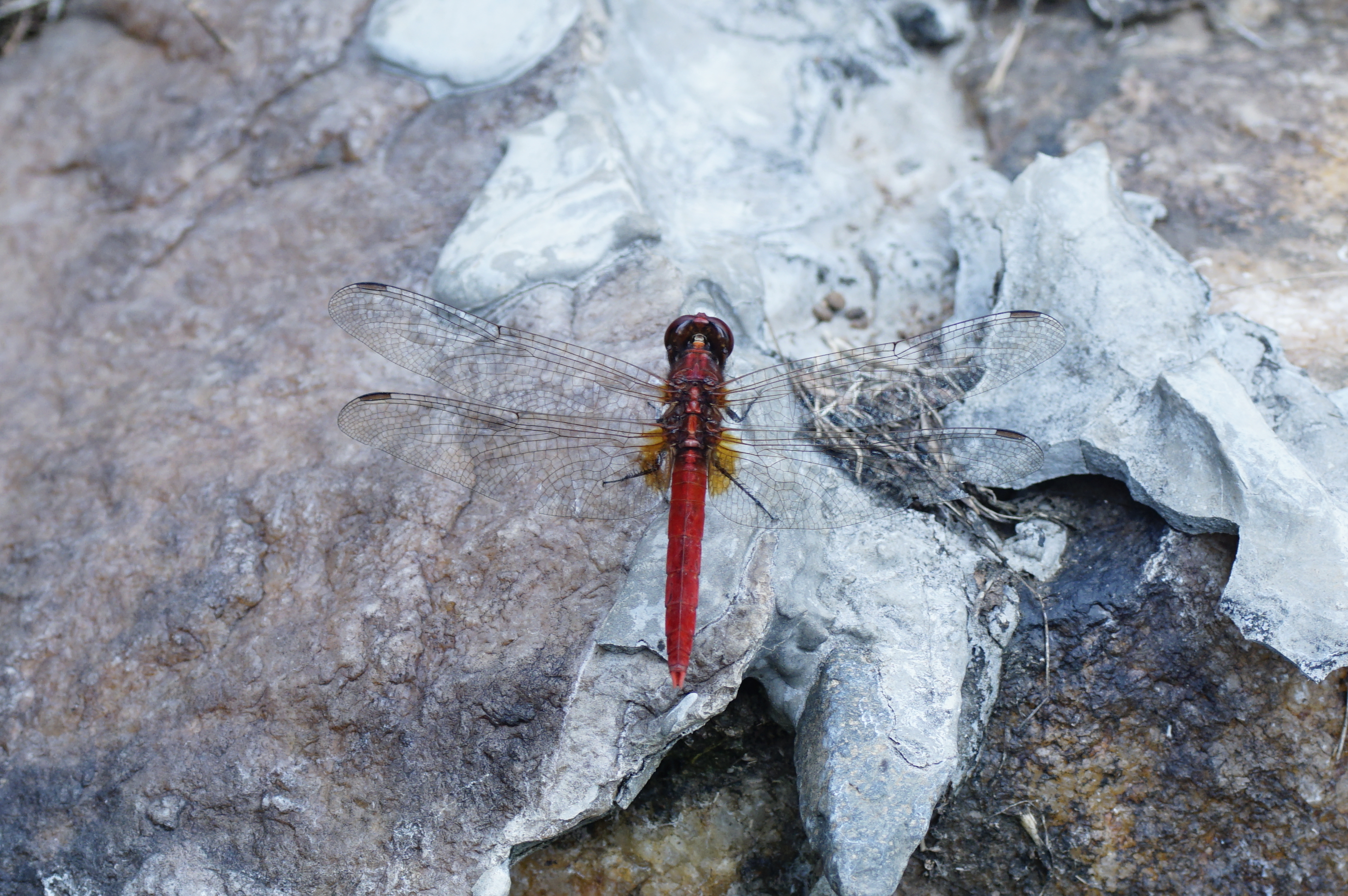 Rhodothemis rufa